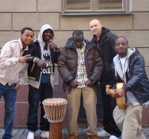 Picture of Panetoz at the videoshoot for Mama Africa